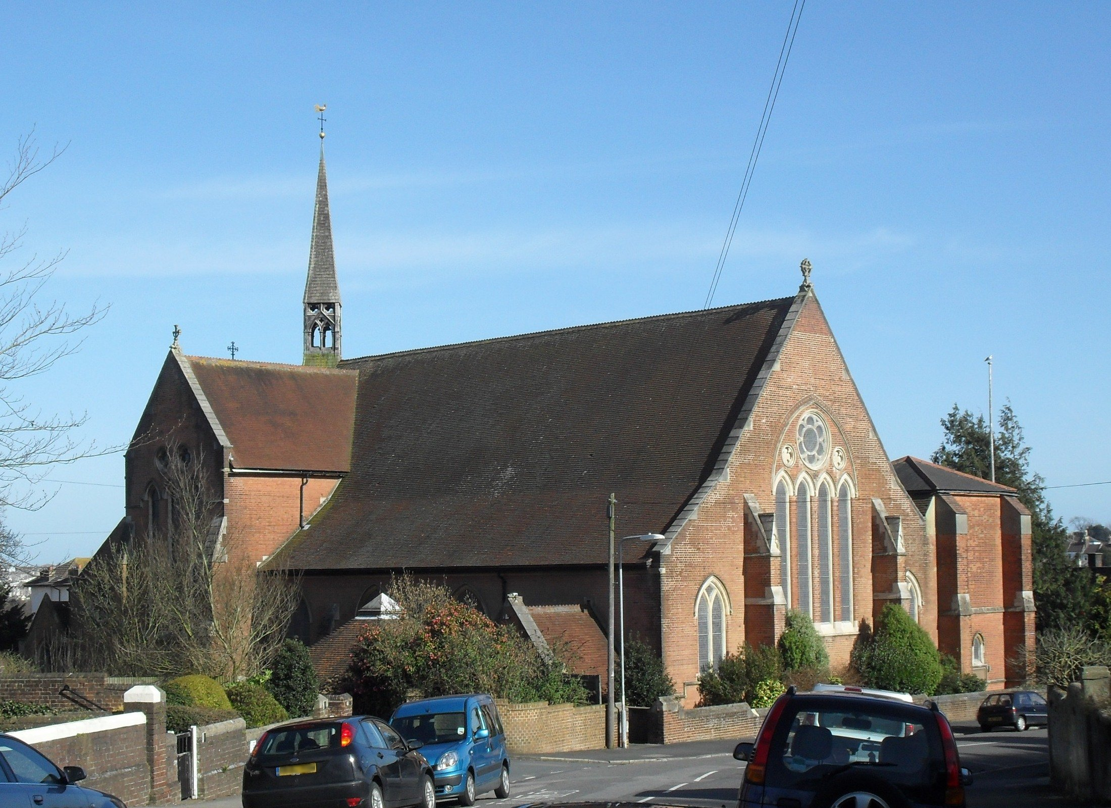 St Matthew's parish church, Silverhill, St Leonards-on-Sea, East Sussex, seen from the west from St Matthew's Road